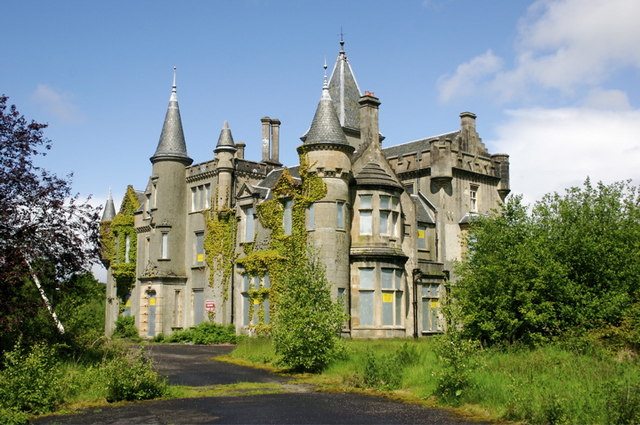 Photographer George Rankin writes: "Former Shandon House (St. Andrew's School), Shandon, Dunbartonshire Rambling Scots baronial mansion with Jacobethan detailing by Charles Wilson, built for William Jamieson in 1849 to replace an earlier house and set in about 31 acres of grounds overlooking Gare Loch. Now owned by the MOD, the property has lain empty and deteriorating for over a decade, its good quality fittings and plaster work decaying, its setting compromised by the depressing remains of derelict structures associated with its last use as a "list D" remand home. The MOD's plans to use the building and its grounds did not materialise and they are now keen to dispose of it (offers invited)."